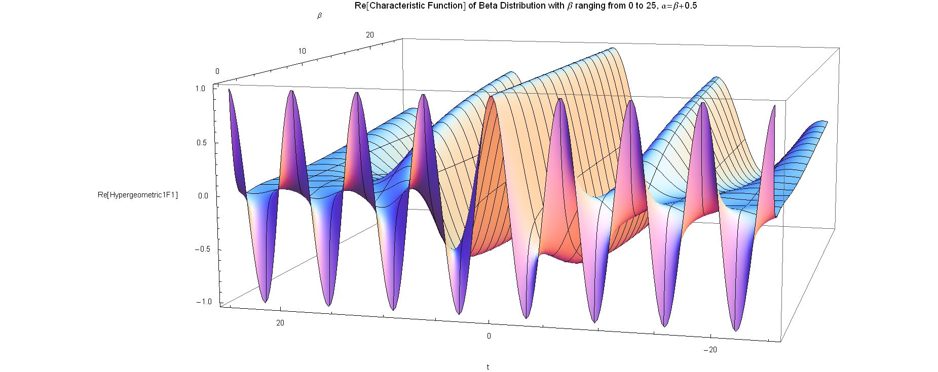 Re(CharacteristicFunction) Beta Distribution beta from 0 to 25, alpha=beta+0.5 Front - J. Rodal